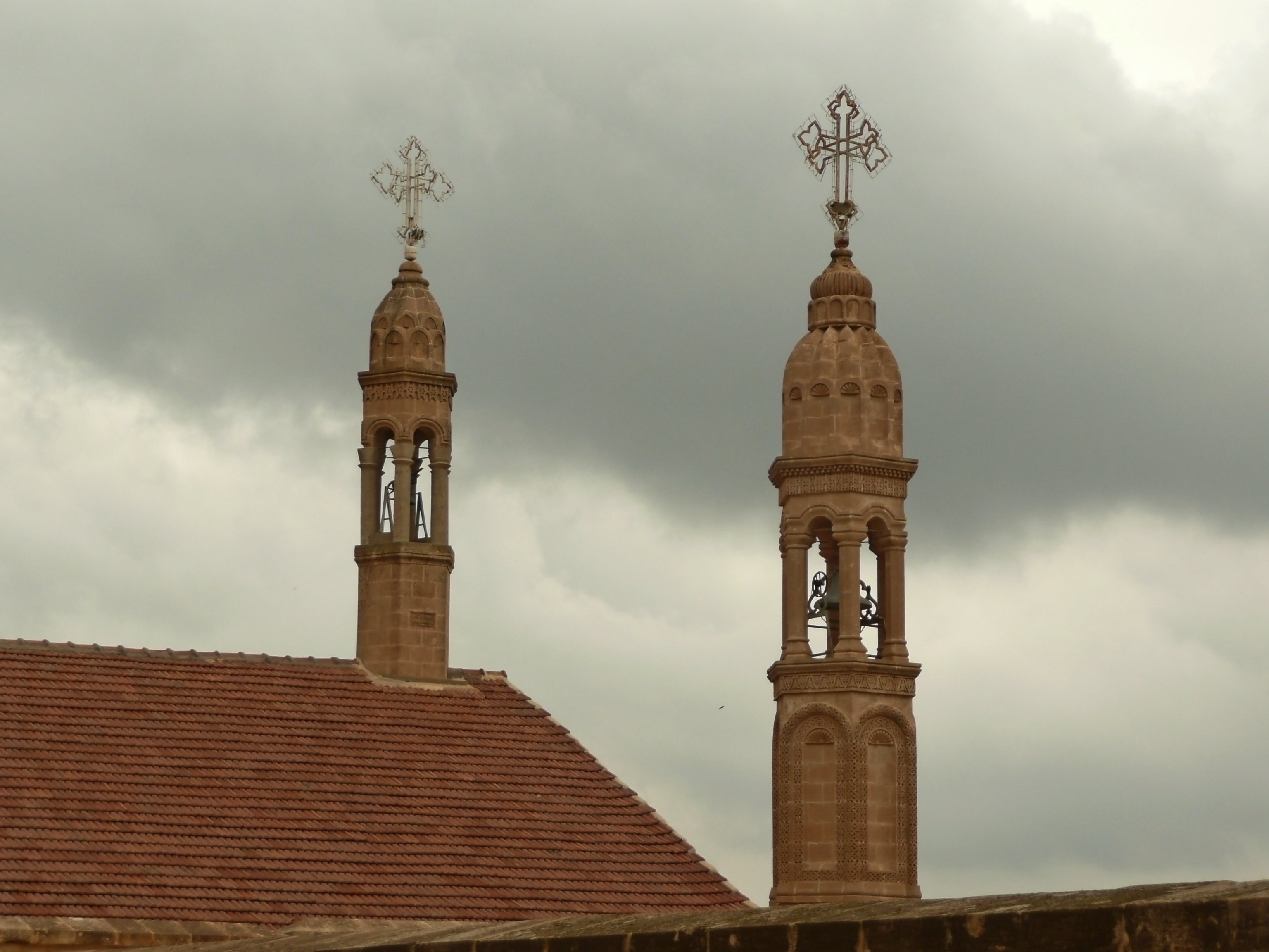 Photographs from Deyrulumur (Mor Gabriel Monastery) , Midyat, Turkey.